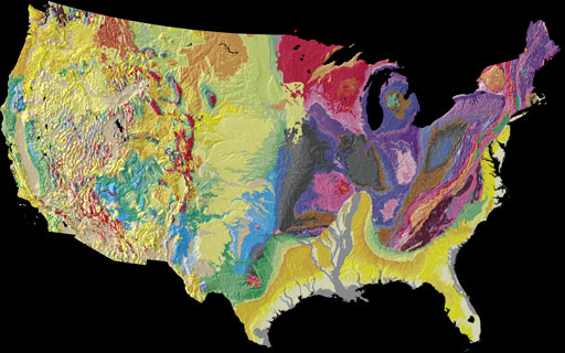 The map indicates the age of the exposed surface as well as the type of terrain.